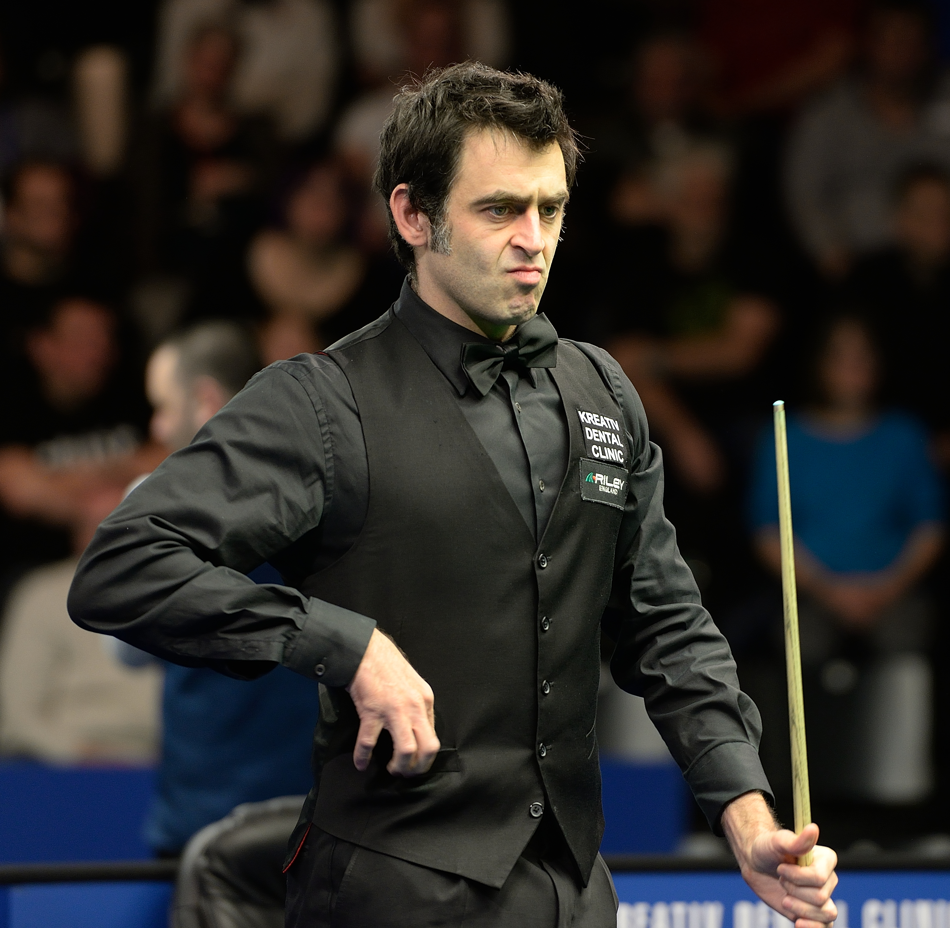 Picture taken in Berlin during the Snooker German Masters in 2015. Ronnie O’Sullivan.